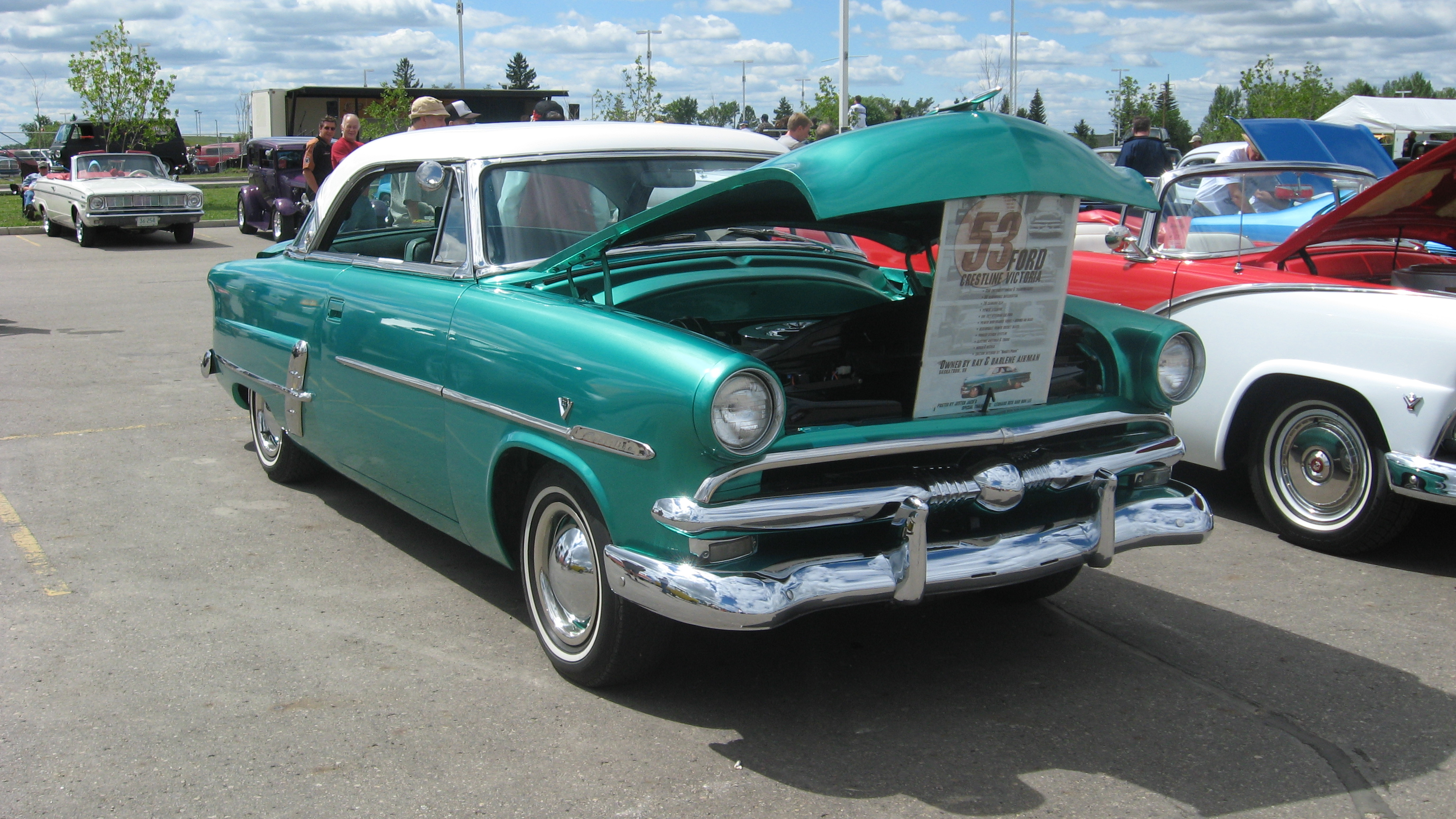 '53 ford crestliner victoria, shot at local car show/swap meet